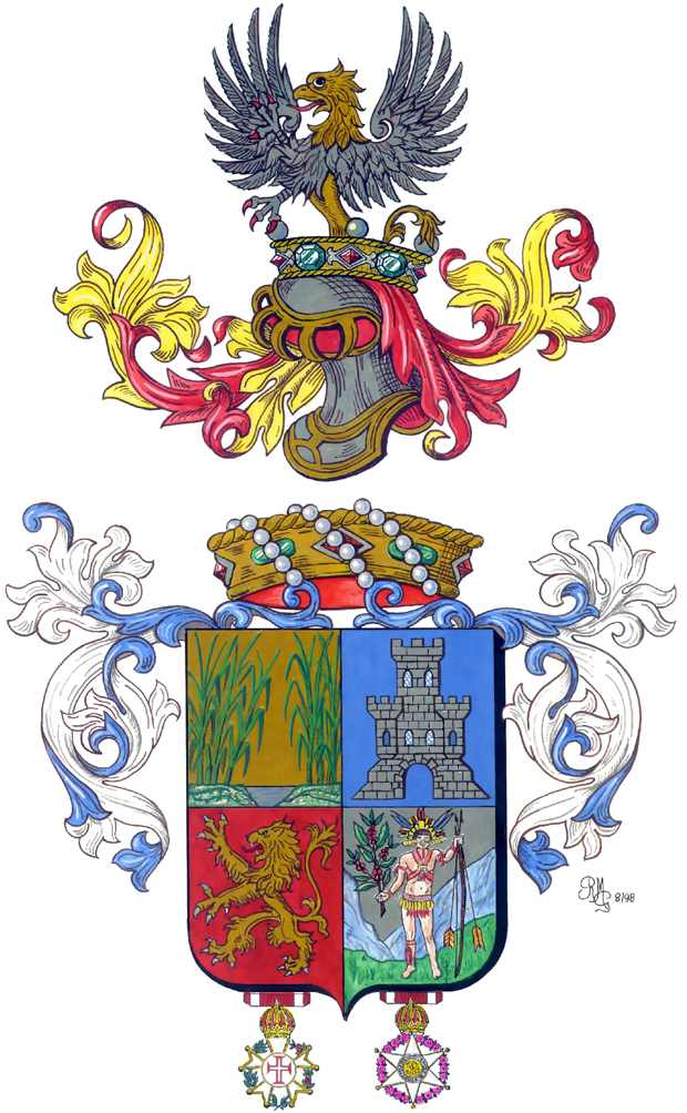 coat of arms of Gonçalo Accioli de Faro Rollemberg, Baron of Japaratuba